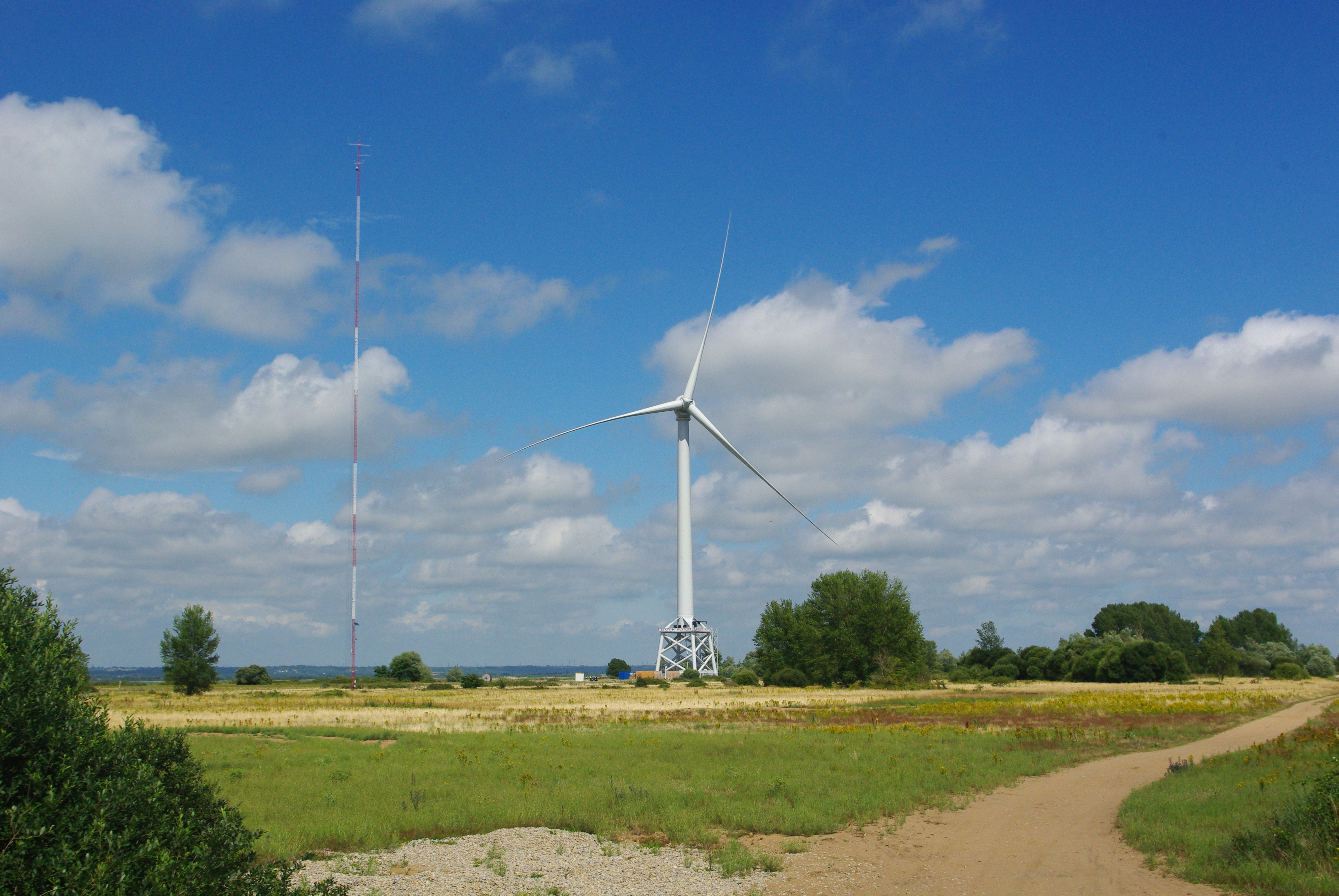 Haliade wind-turbine in Le Carnet, Loire-Atlantique